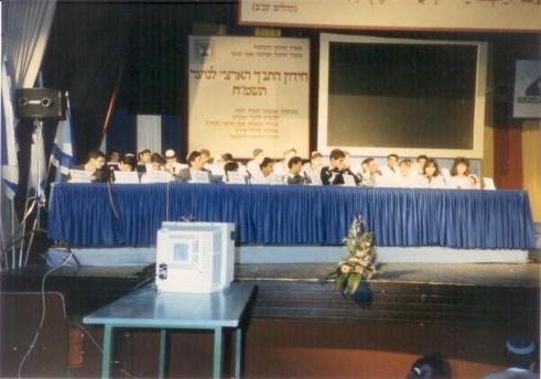 National Israel bible quiz for youth 1988 in Jerusalem